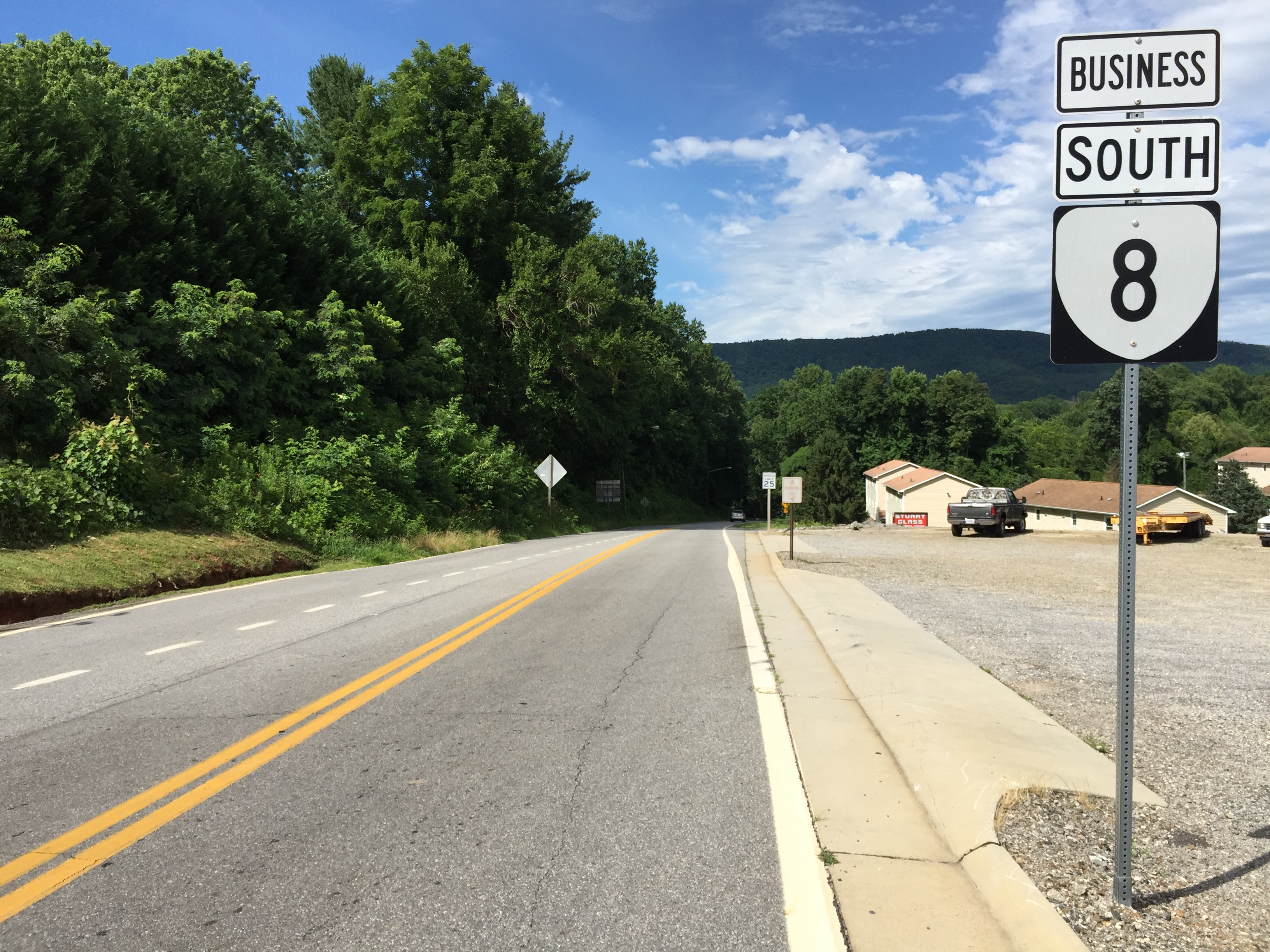 View south along Virginia State Route 8 Business (Patrick Avenue) at U.S. Route 58 Business (Blue Ridge Street) in Stuart, Patrick County, Virginia